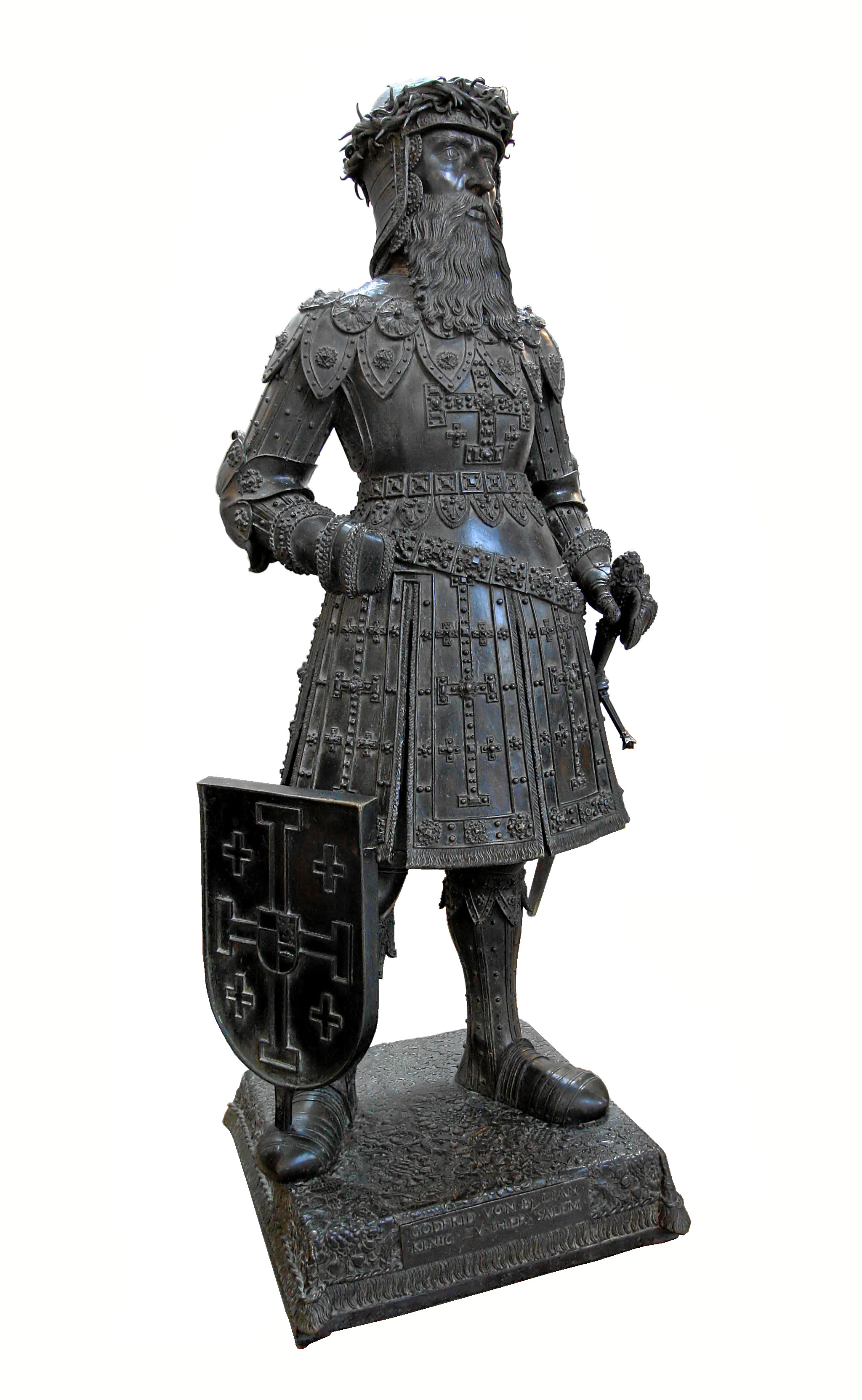 Bronze statue of Godfrey of Bouillon in the Hofkirche of Innsbruck.